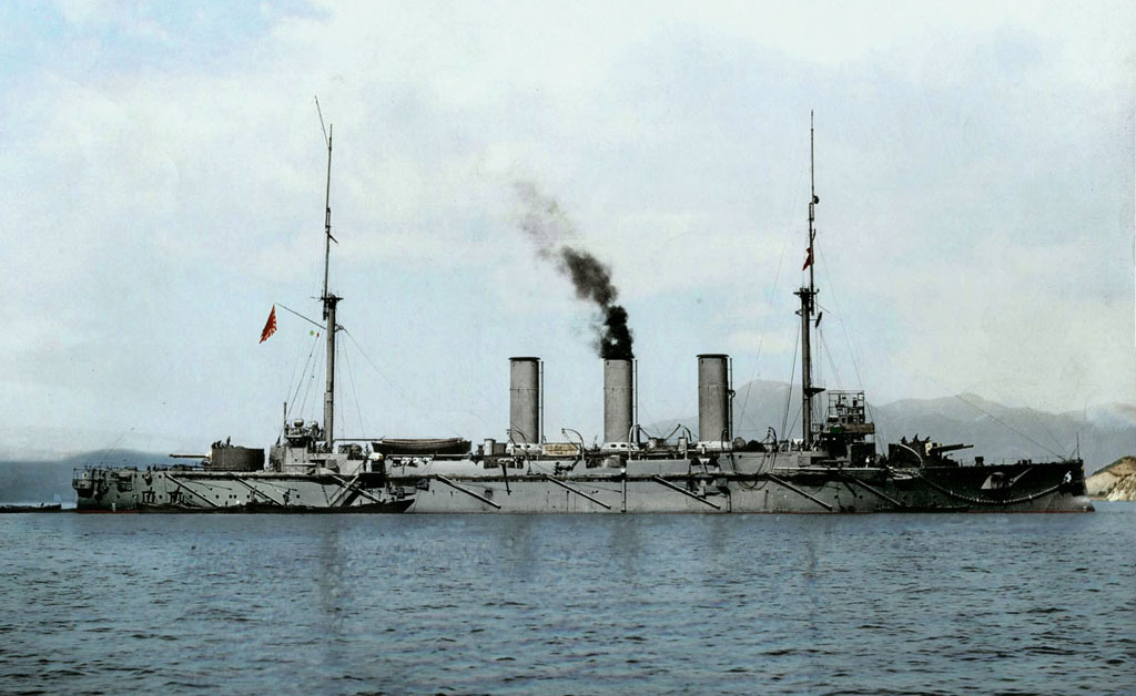 Picture of Japanese cruiser Yakumo at anchor in Kure, Japan, 1905